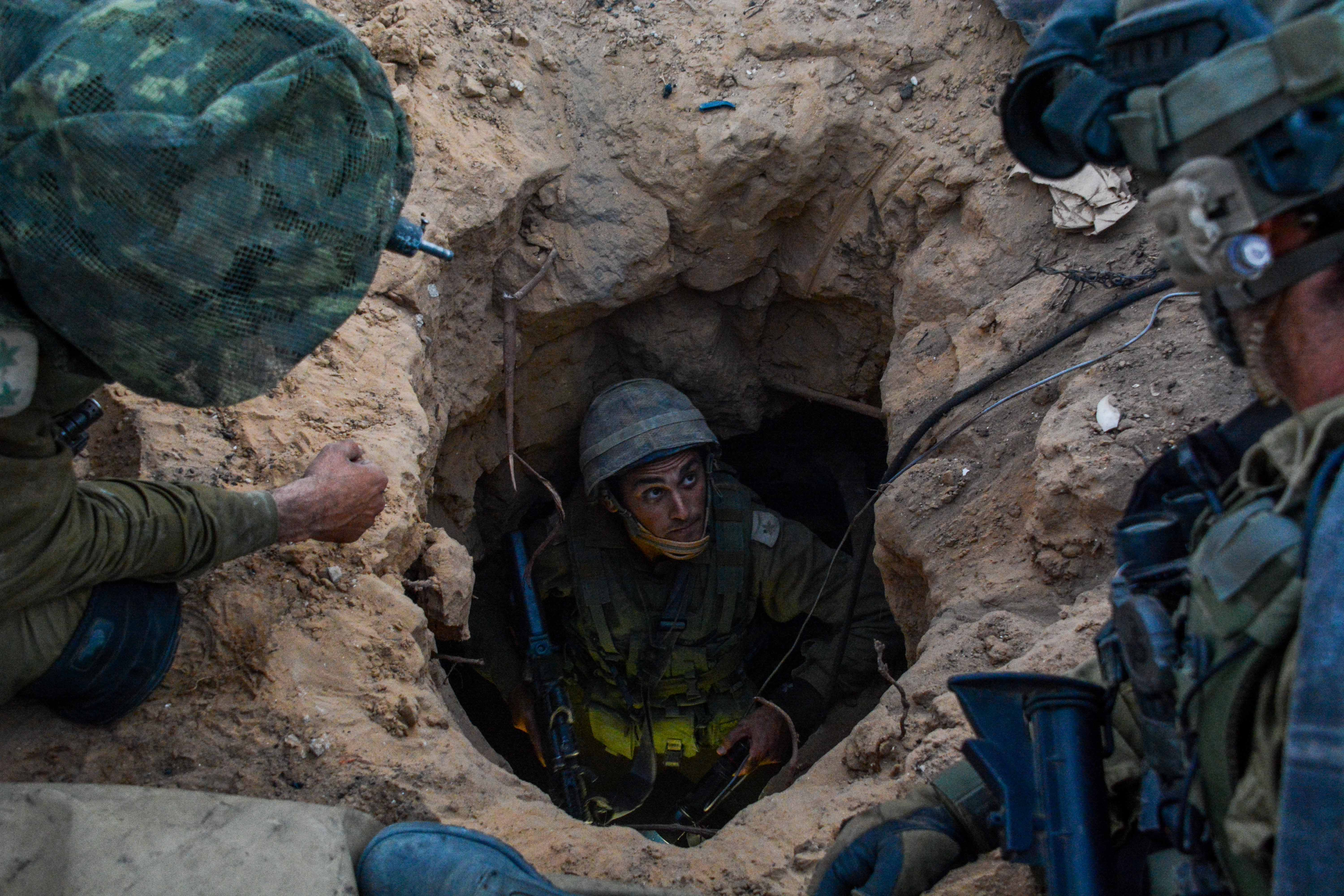 The IDF's paratroopers brigade operate within the Gaza Strip to find and disable Hamas' network terror tunnels and eliminate their threat to Israeli civilians. For more updates: The Israel Defense Forces Facebook The Israel Defense Forces blog Follow us on Twitter